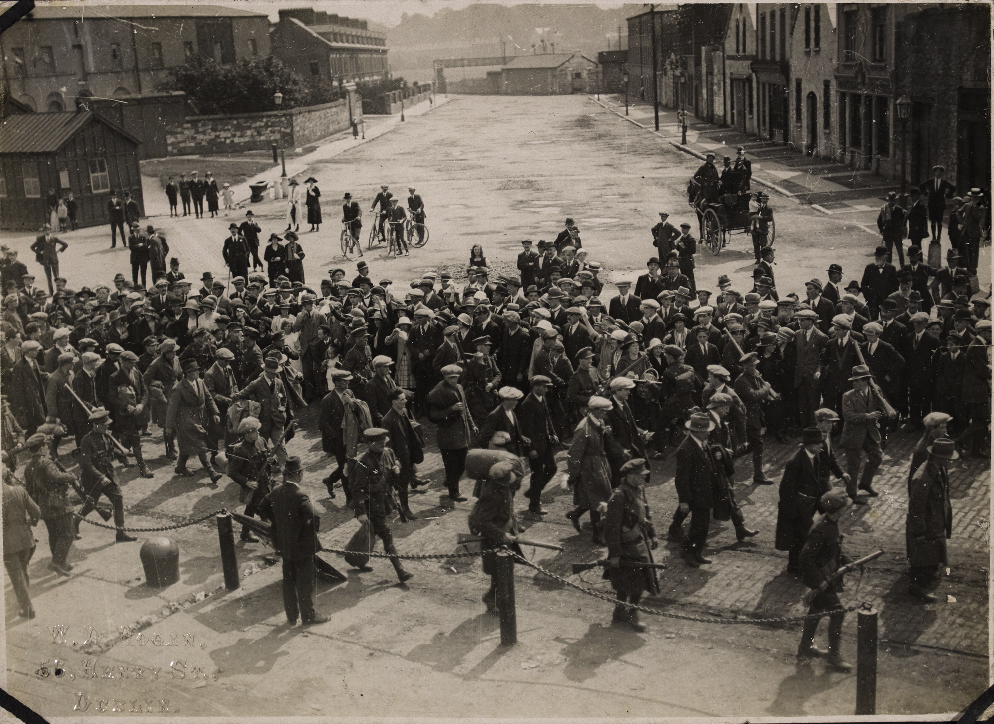 Following from yesterday's related Hogan shot, here we see pro-treaty forces escorting anti-treaty prisoners following the Battle of Cork. Given the learnings yesterday, it seems possible that Hogan stood on the upper deck of a vessel (perhaps the same vessel we saw yesterday) to capture this image... I was always of the opinion that the references to Cork as the "Rebel City" was related to this time in our history, it transpires that the colloquialism has a much earlier genesis. In 1491 Cork played a part in the English Wars of the Roses when Perkin Warbeck, a pretender to the English throne, landed in the city and tried to recruit support for a plot to overthrow Henry VII of England. The Cork people fought with Perkin because he was French and not English, they were the only county in Ireland to join the fight. The Mayor of Cork and several important citizens went with Warbeck to England but when the rebellion collapsed they were all captured and executed. Cork's nickname of the "rebel city" originates in these events. See: County Cork article on Wikipedia Photographer: W. D. Hogan Contributors: Lawrence, William (1840-1932) Collection: Hogan-Wilson Collection Date: 1922 NLI Ref: HOGW 12 You can also view this image, and many thousands of others, on the NLI’s catalogue at